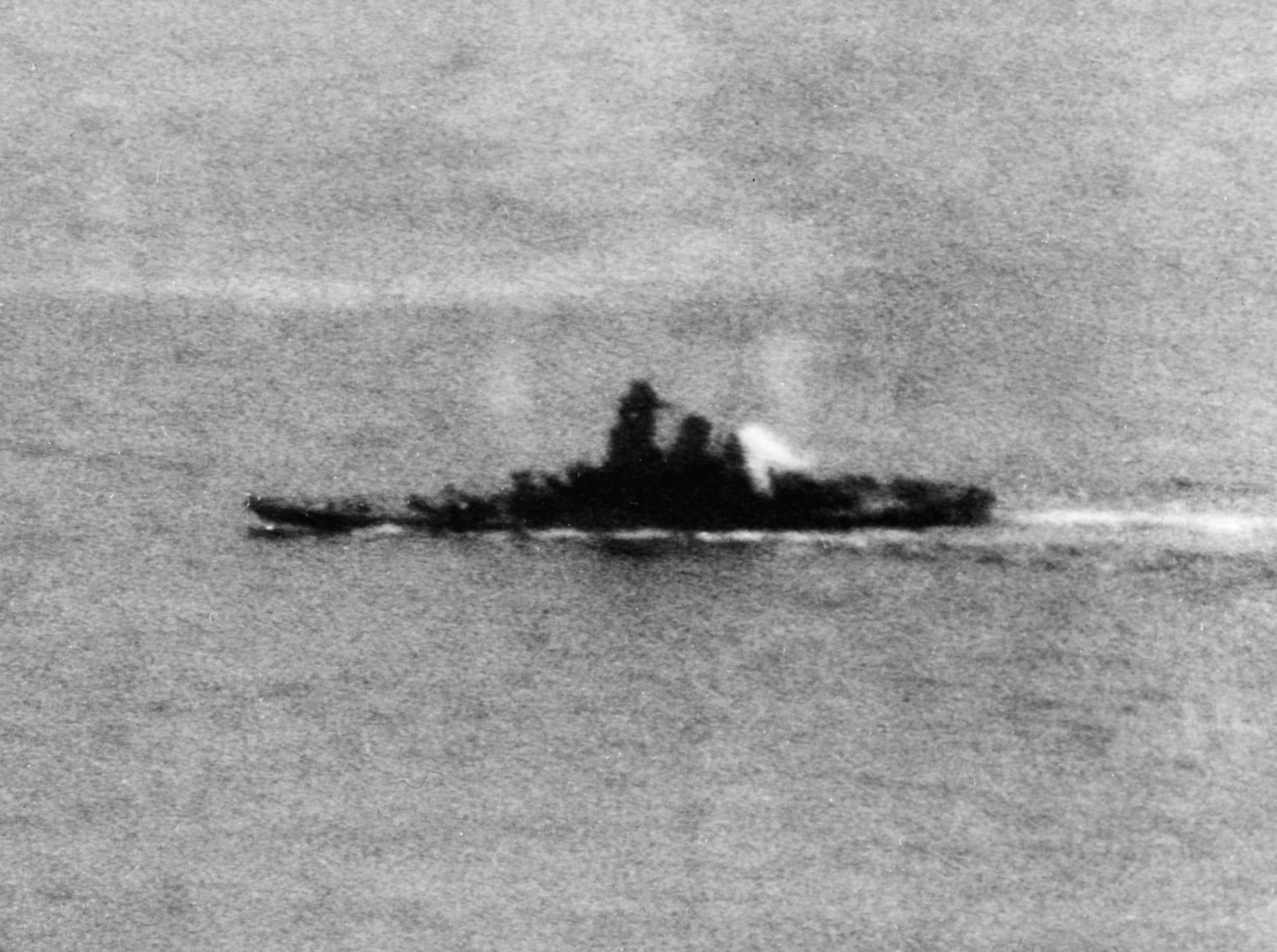 Operation "Ten-Go": The Japanese battleship Yamato listing to port and afire at the after end of her superstructure, but still underway, while under attack by U.S. Navy carrier planes north of Okinawa, 7 April 1945. The photo was taken by a plane from the aoircraft carrier USS Yorktown (CV-10). The original photo caption reads: "A torpedo plane's view of battleship Yamato. This is how Japan's mightiest warship appeared as six lone U.S. Navy torpedo planes raced in to destroy her. She is still making 10 to 15 knots, though fires continue to burn amidships." (Collection of Fleet Admiral Chester W. Nimitz, USN).